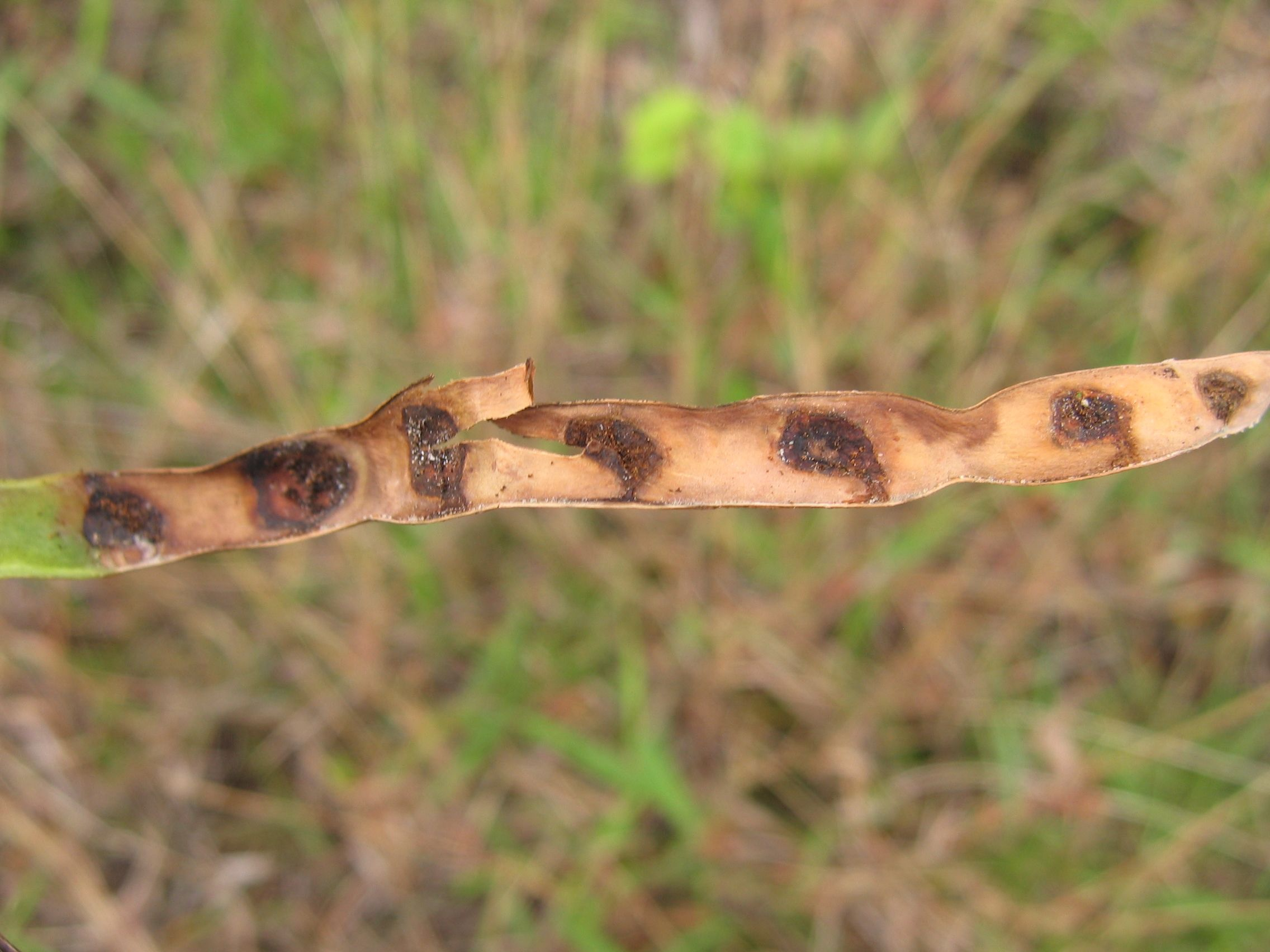 Acacia koaia seed pod, showing the end-to-end arrangement of seeds. Photo by Karl Magnacca.